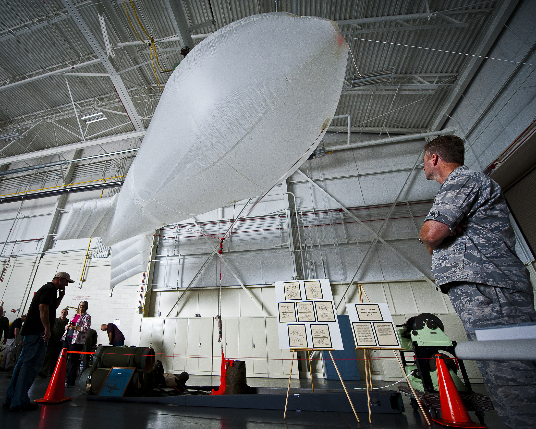 The “Skyhook” Fulton Surface to Air Recovery System, a device attached to the aircraft used to lift people off the ground, was among the artifacts and displays at the MC-130E Combat Talon I retirement ceremony at Duke Field, Fla., April 25. Aircrew, maintainers and many others turned out to remember and bid farewell to the Talon I on its official retirement from the Air Force. The last five Talons, located at Duke Field, will be delivered to the “boneyard” at Davis-Monthan Air Force Base, N.M., by mid-May 2013.